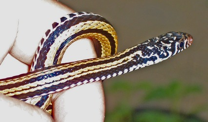 Xenochrophis vittatus, from Banyumas, Central Java, Indonesia